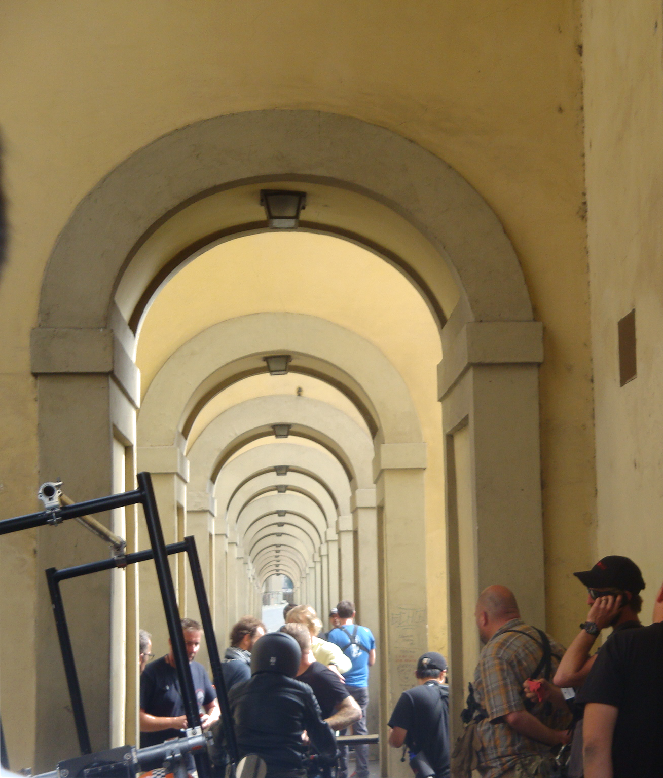 An image of the Vasari corridor along the riverside of the Arno in Florence, taken during scene set-up for a motorcycle chase during the filming of action movie 'Six Underground' in September 2018